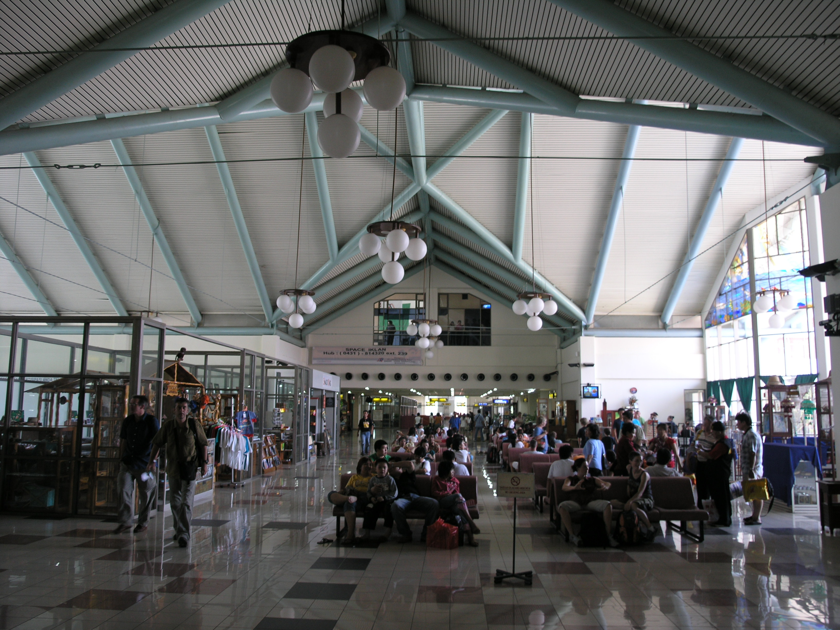 Picture of Manado airport departure hall. Manado, North Sulawesi, Indonesia.